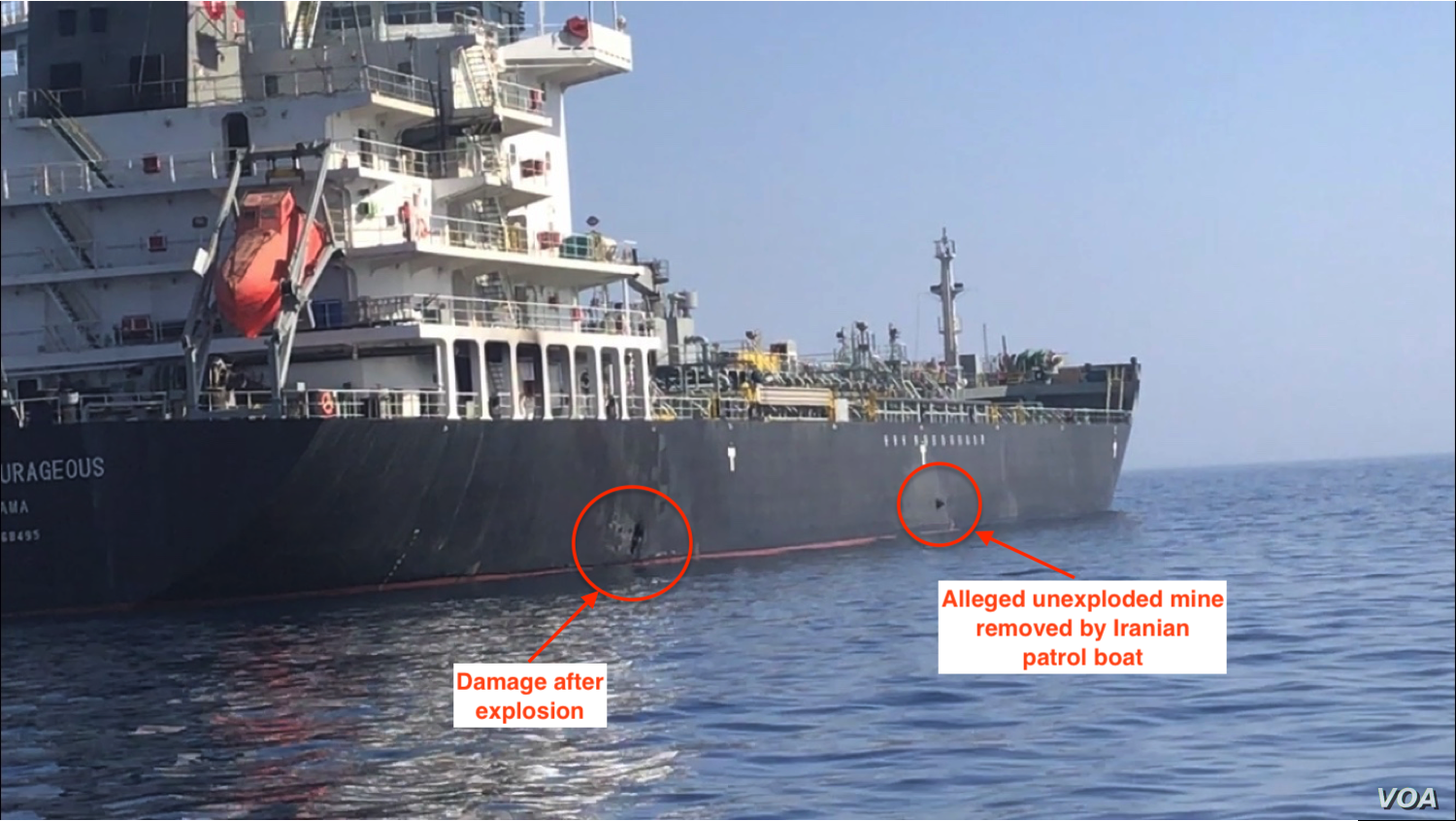 MV Kokuka Courageous with hull damage and mine